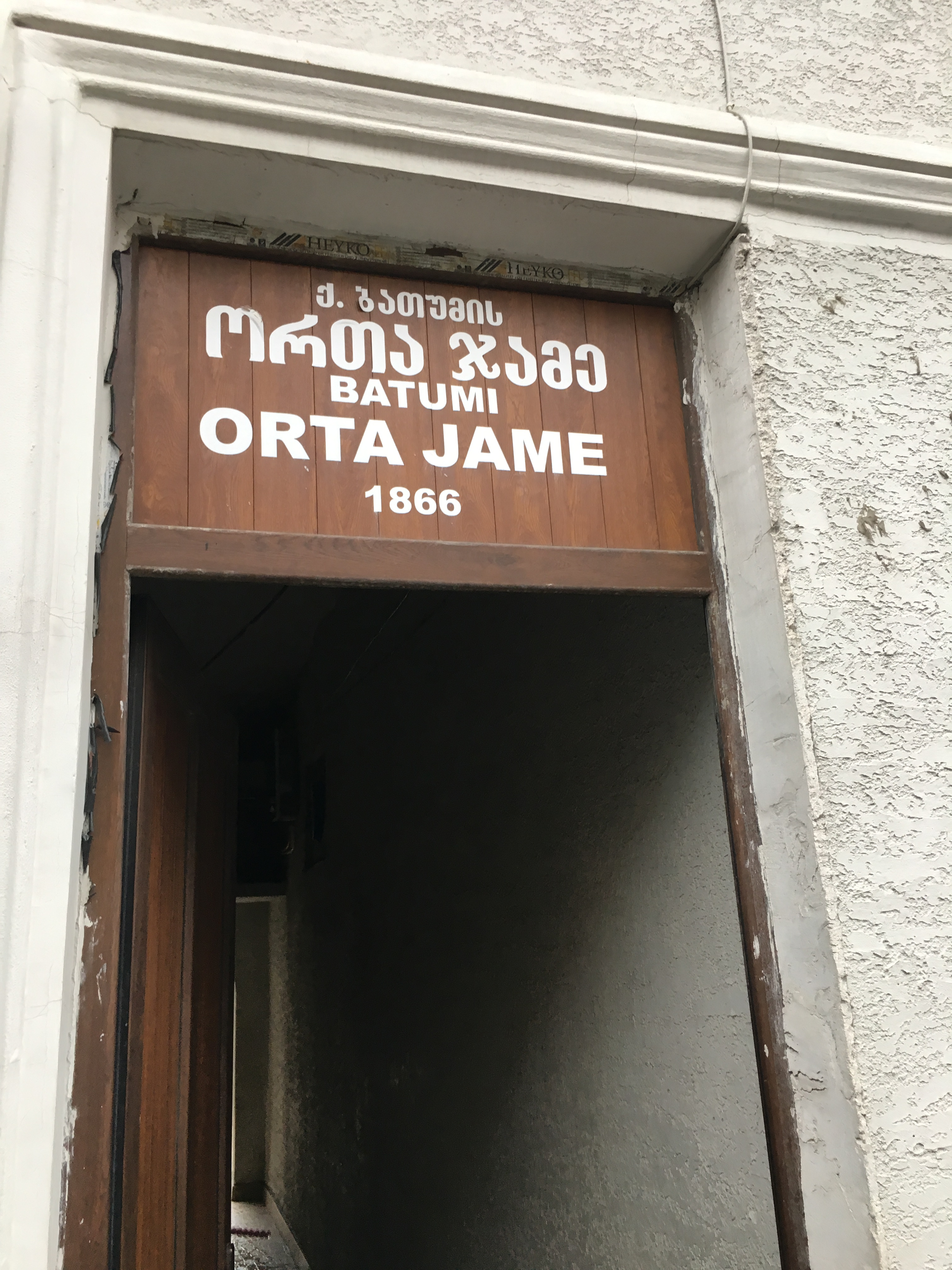 BATUMI ORTA JAME